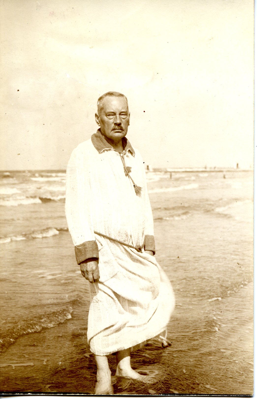 Adolf Paul as an old man, probably in the 1930s.